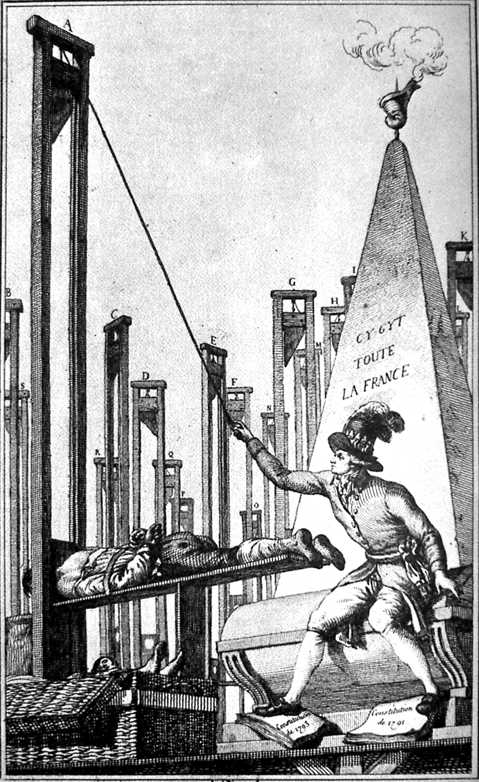 An engraving of Robespierre guillotining the executioner after having guillotined everyone else in France. Text on pyramid: Cy Gyt Toute La France (Ci git toute la France)